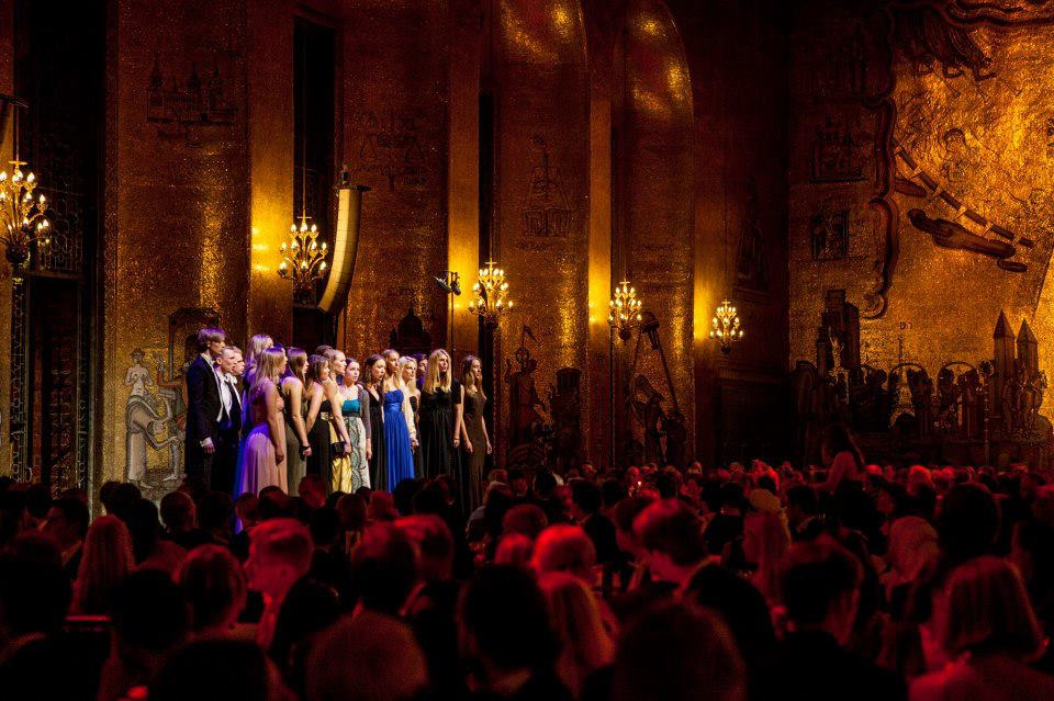 Friedmans Apostlar the choir of the Student Association at the Stockholm School of Economics performing at the graduation ceremony in the golden hall in Stockholm City Hall.